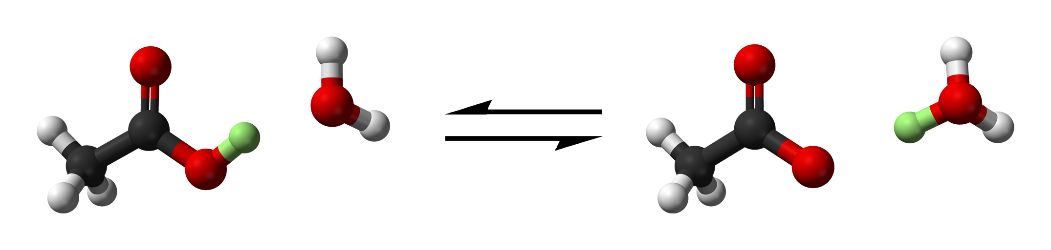 Ball-and-stick model of the dissociation of acetic acid to acetate. A water molecule is protonated to form a hydronium ion in the process. The acidic proton that is transferred from acetic acid to water is labelled in green. Image generated in Accelrys DS Visualizer.